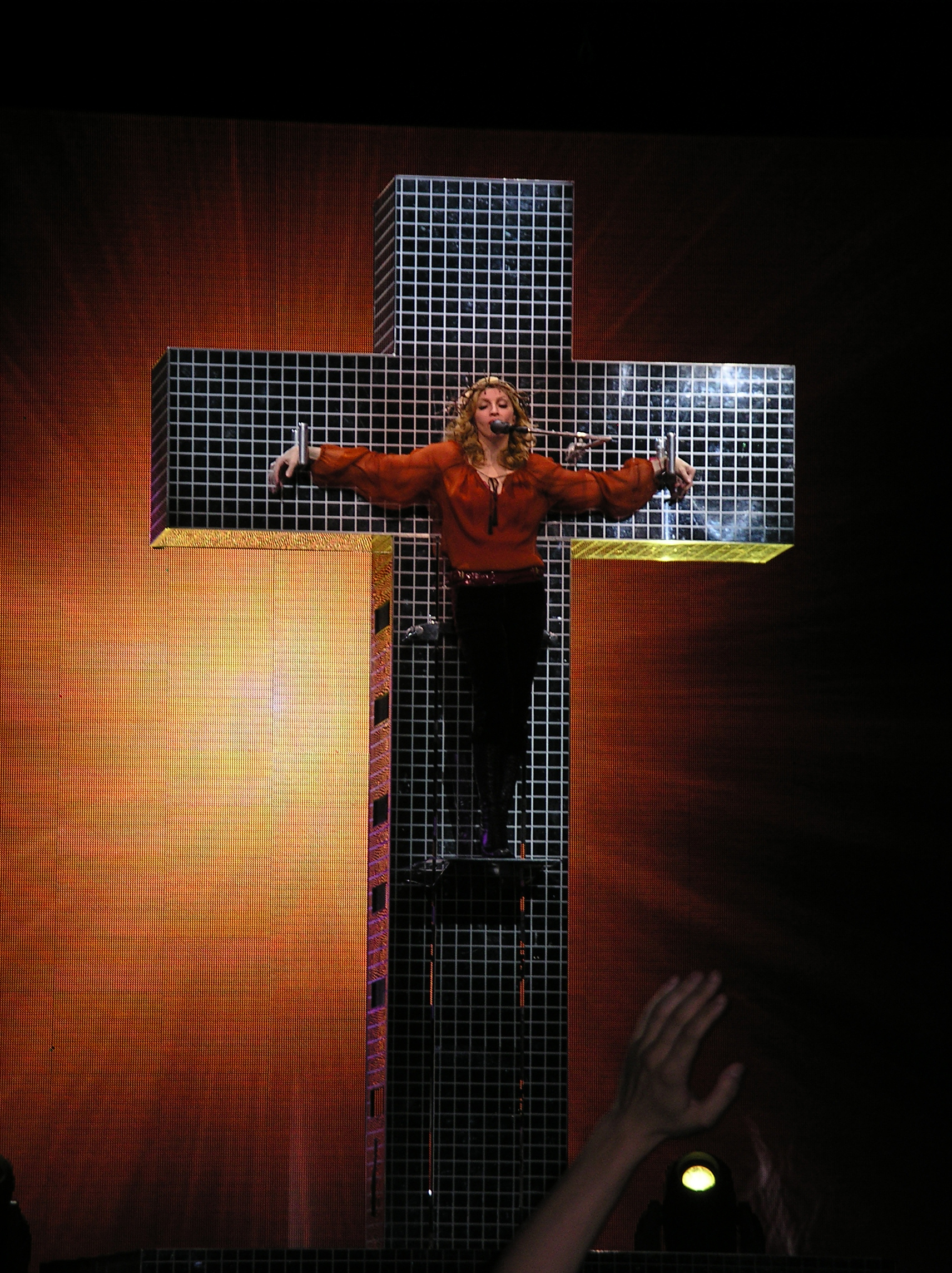 Madonna during her concert in Paris, France, as part of her Confessions Tour on August 31, 2006.